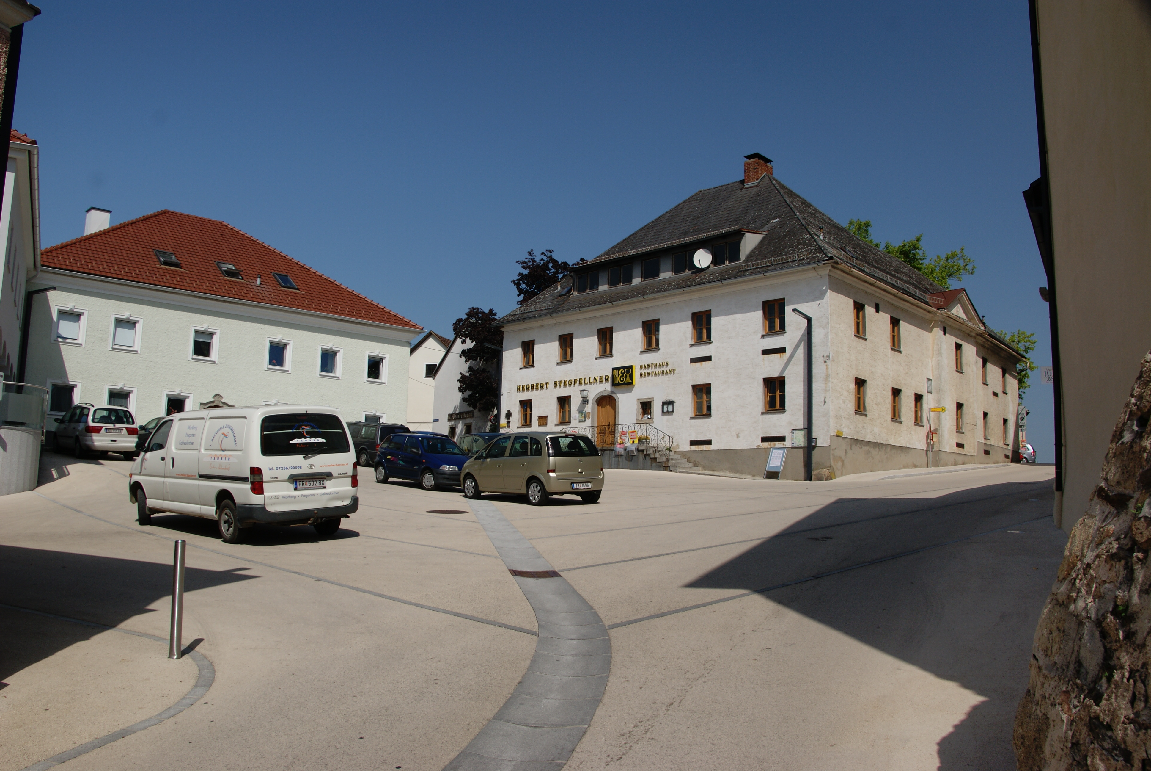 Center of Wartberg ob der Aist, Upper Austria